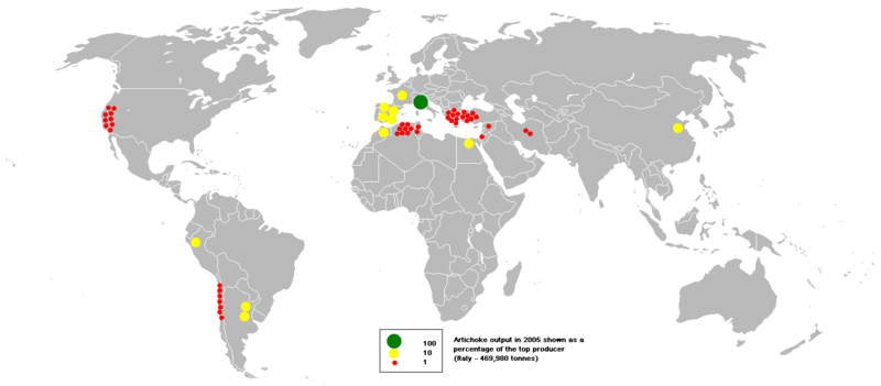 This bubble map shows the global distribution of artichoke output in 2005 as a percentage of the top producer (Italy - 469,980 tonnes). This map is consistent with incomplete set of data too as long as the top producer is known. It resolves the accessibility issues faced by colour-coded maps that may not be properly rendered in old computer screens. Data was extracted on 18th June 2007 from Based on Image:BlankMap-World.png